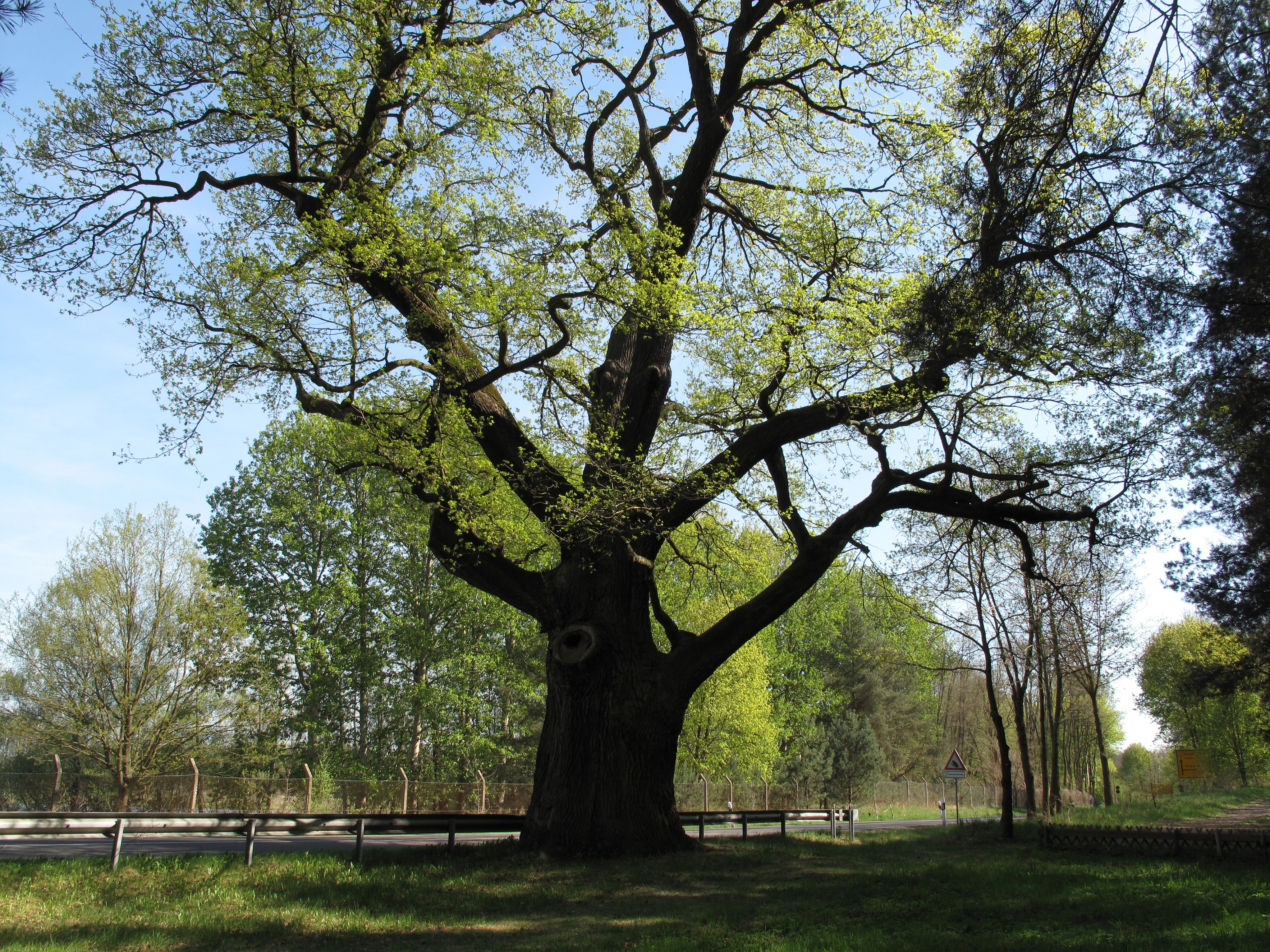 Natural monument „Napoleon-Eiche“ (Napoleon-oak/Quercus robur) in Altfriedland. It is said to has been sitting Napleon under this tree in spring 1812 on his way to Russia. The village Altfriedland is a part of the municipality Neuhardenberg in the District Märkisch-Oderland, Brandenburg, Germany.